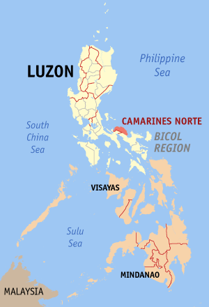 Map of the Philippines showing the location of Camarines Norte